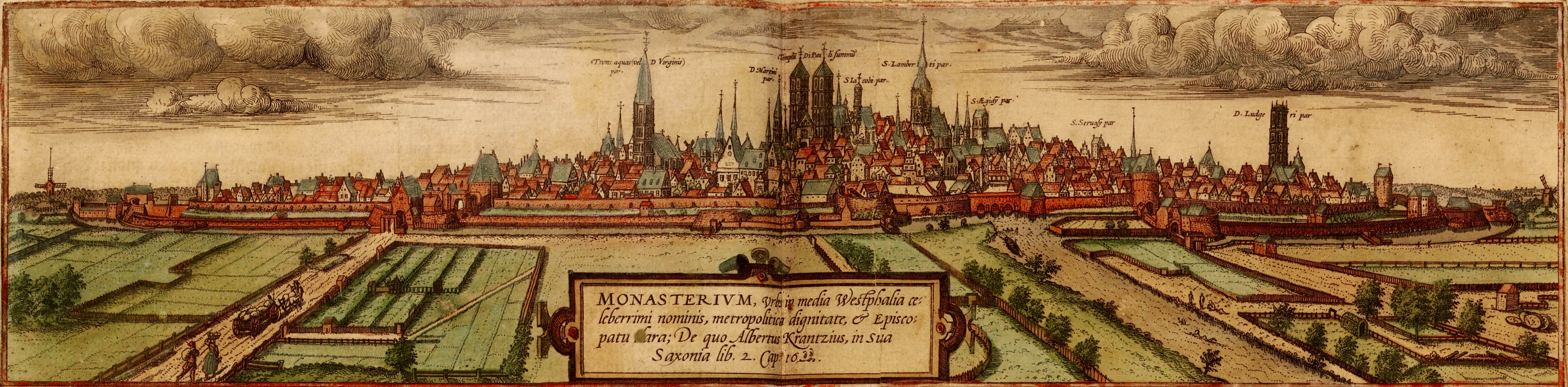 The city of Münster (Westphalia) as seen by Remius Hogenberg in 1570, looking from the south-west onto the city. Big churches seen on the picture (from left to right): Liebfrauenkirche (Überwasserkirche), St. Pauls-Cathedral (in the center), Lambertikirche, Ludgerikirche. In the center in front of the cathedral the "Neuwerk" as part of the citywall where the river Aa crosses the city border.